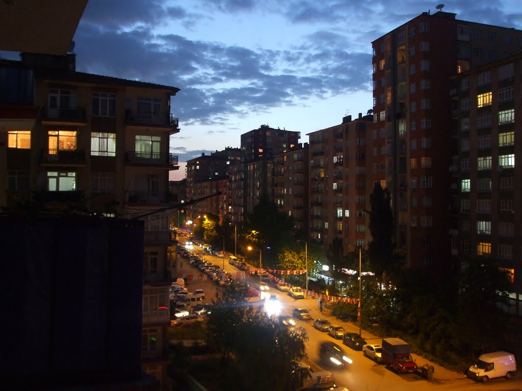 Vatan street, Ankara 2011.